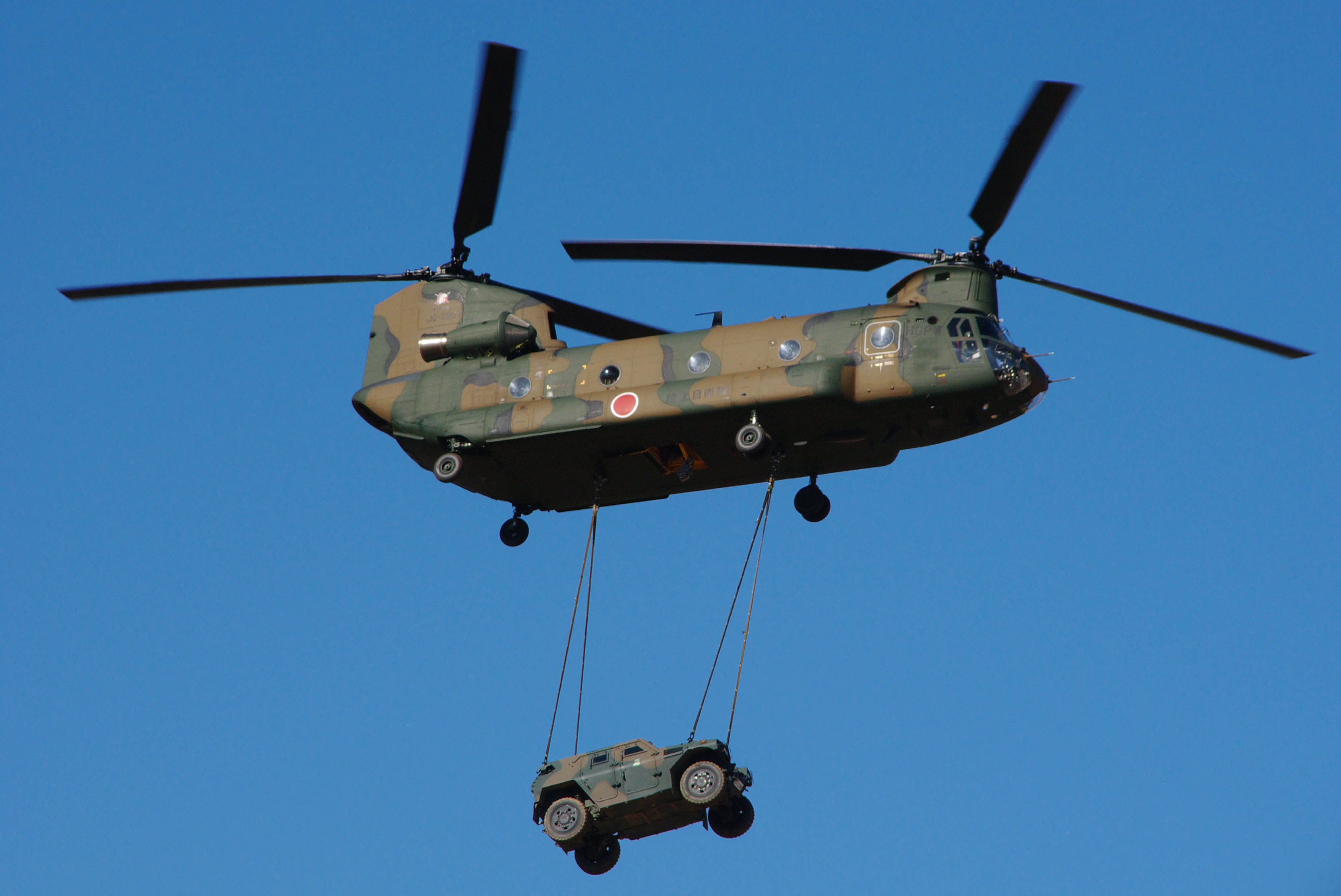 In Narashino, Japan, JGSDF 1st Airborne Brigade 2009 first drop manuver. JGSDF CH-47. Taken by Los688. PD-self